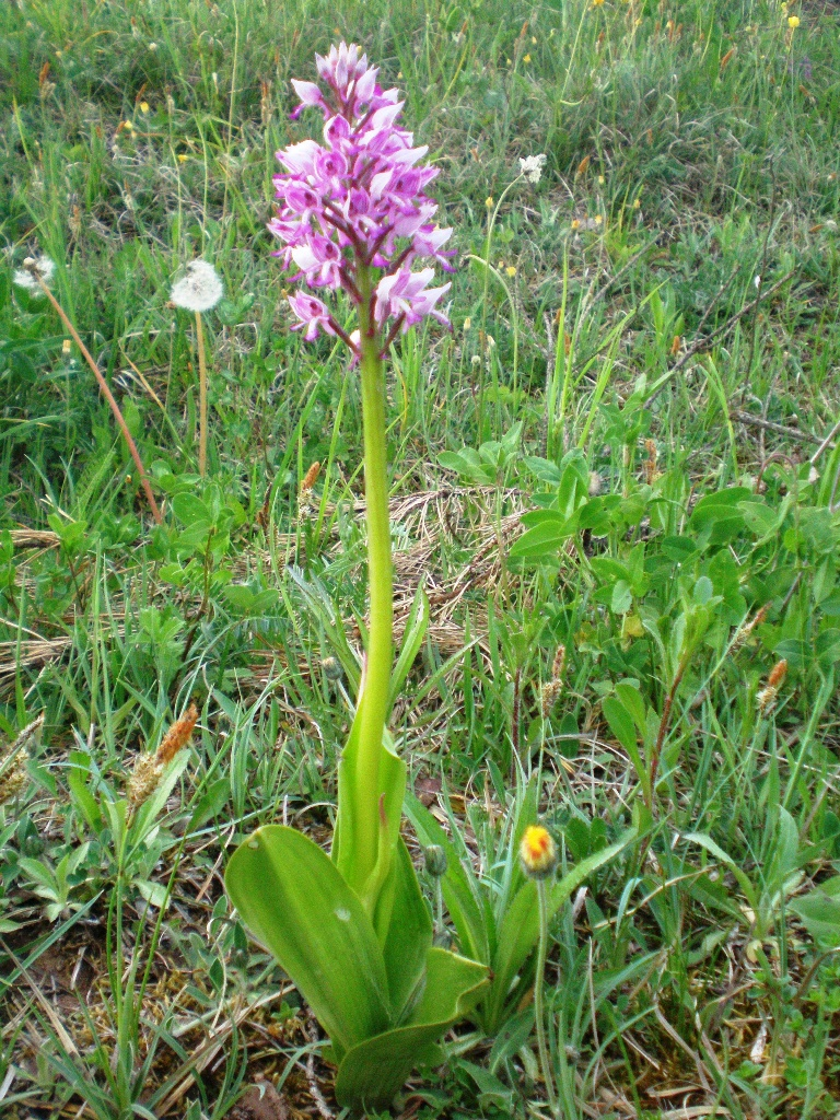 Orchis militaris